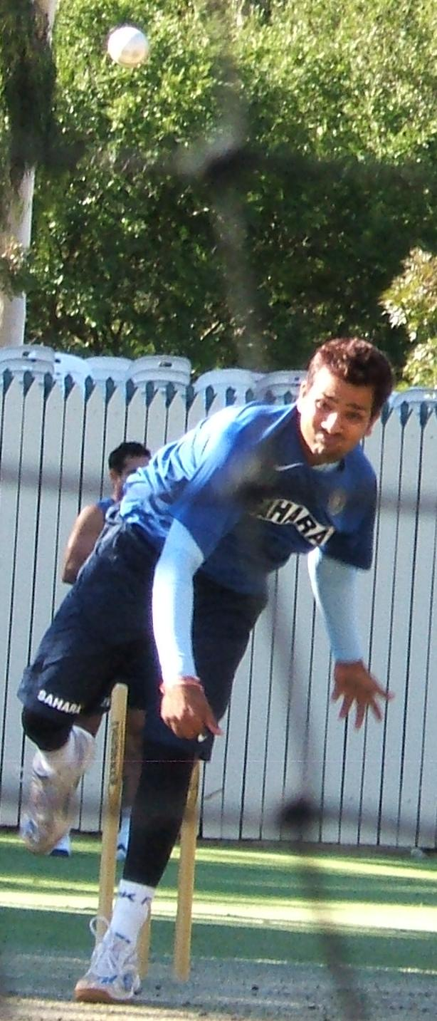 Rohit Sharma bowling at Adelaide Oval